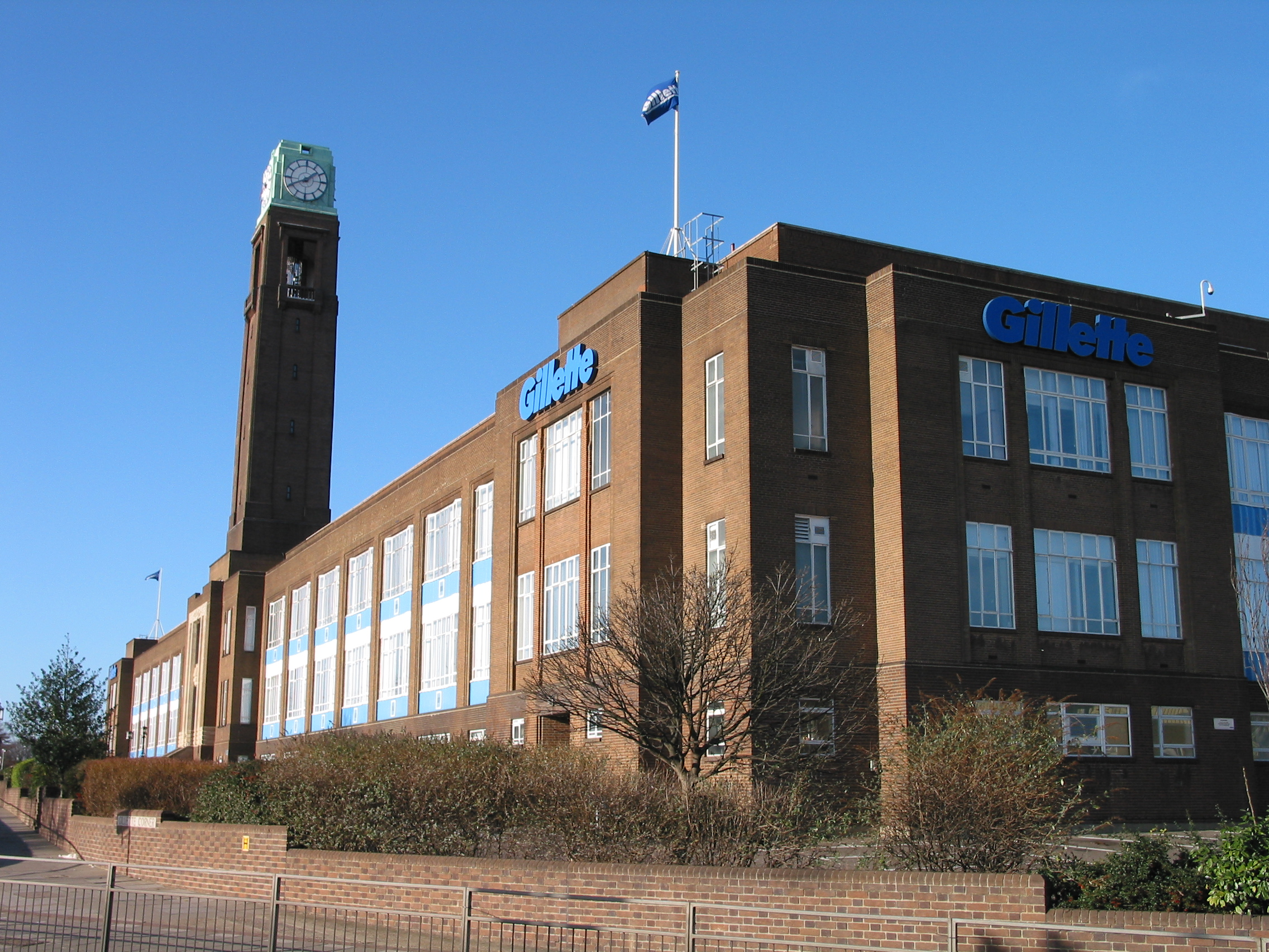 Picture of the Art Deco Gillette Factory, designed by Sir Banister Flight Fletcher in 1936-37, Great West Road, Brentford, UK photo by myself Date and Time 2005:01:23 13:40 Exposure Time 1/640 sec. F Number f/4.5 Copyright © 2005 WLD